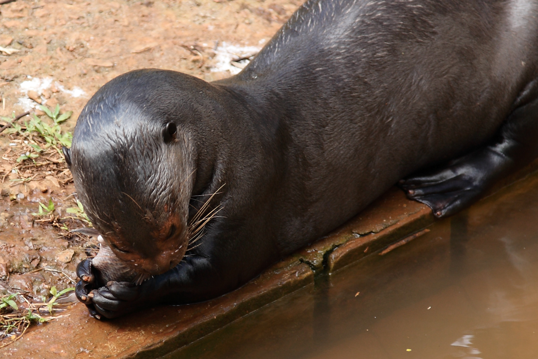 Detail of a Giant Otter (Pteronura brasiliensis) eating a fish at the zoo of Brasília, Brazil.